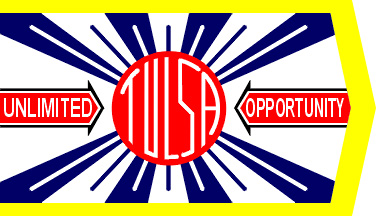 Official municipal flag of Tulsa, Oklahoma from 1924 to 1941.